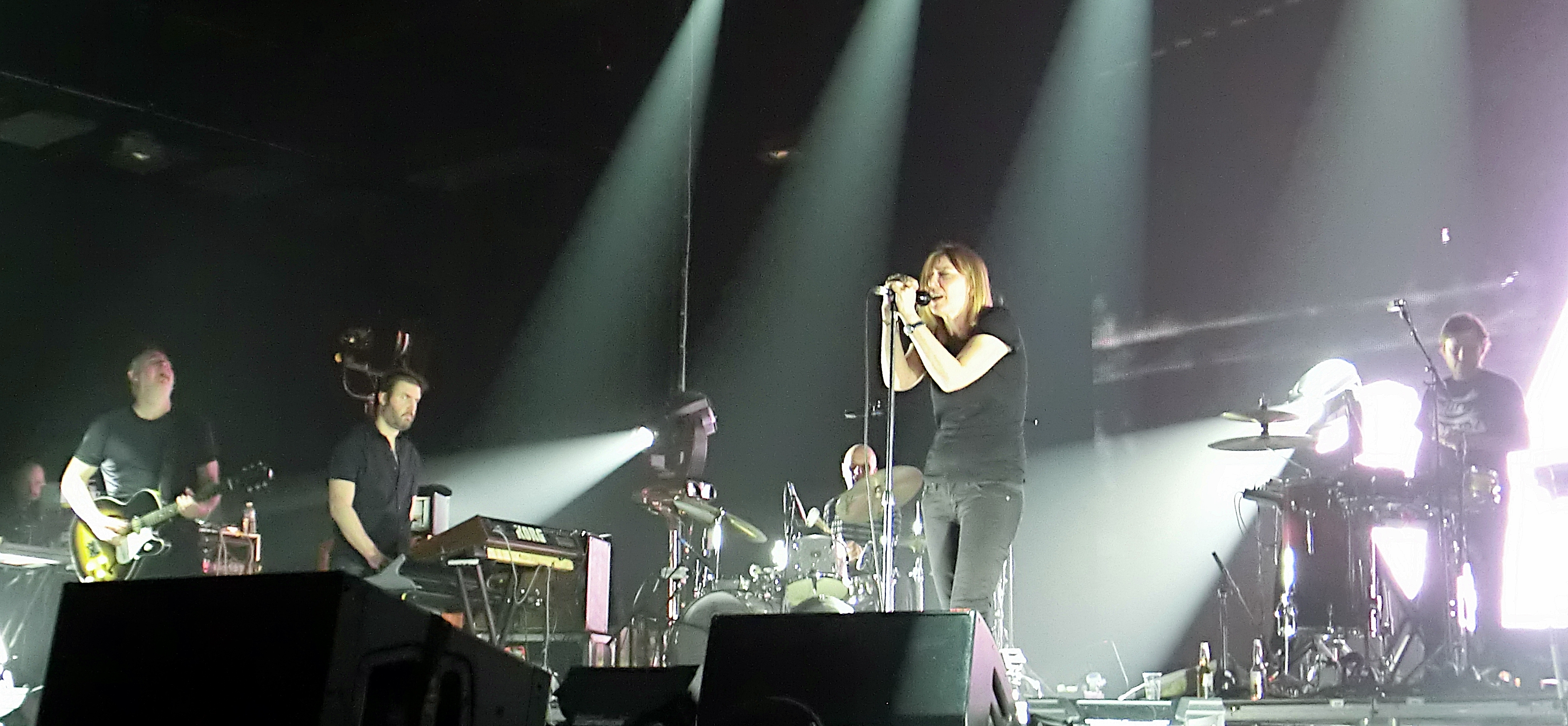 Portishead in concert